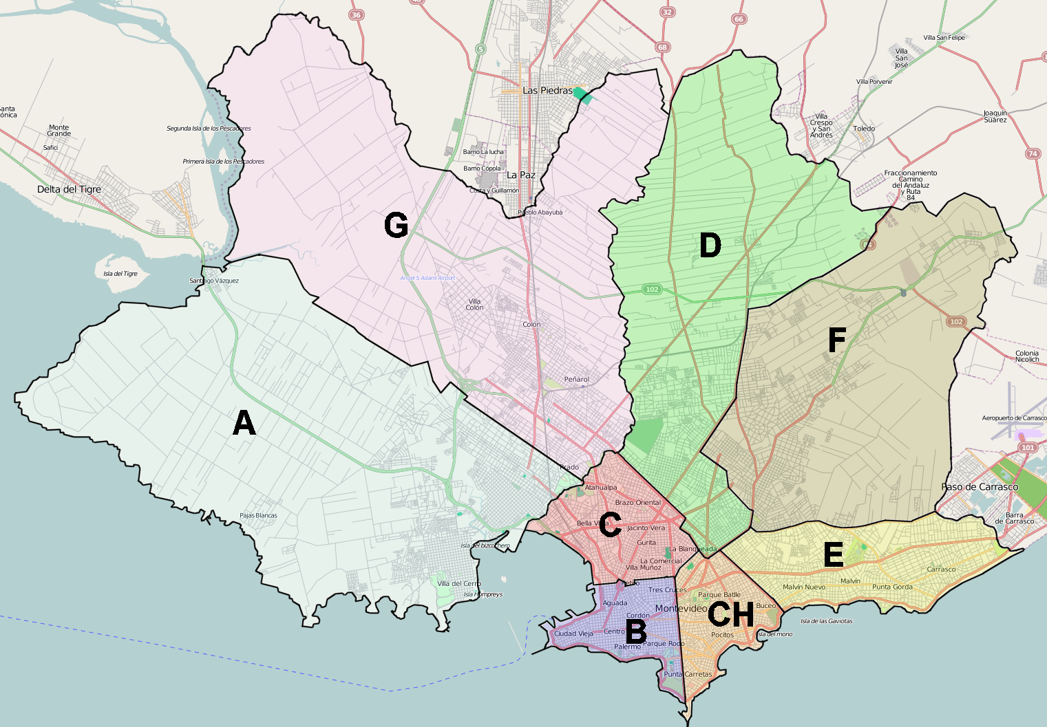 Map of Montevideo showing the new administrative division in 8 "municipios". This map may be incomplete, and may contain errors. Don't rely solely on it for navigation.